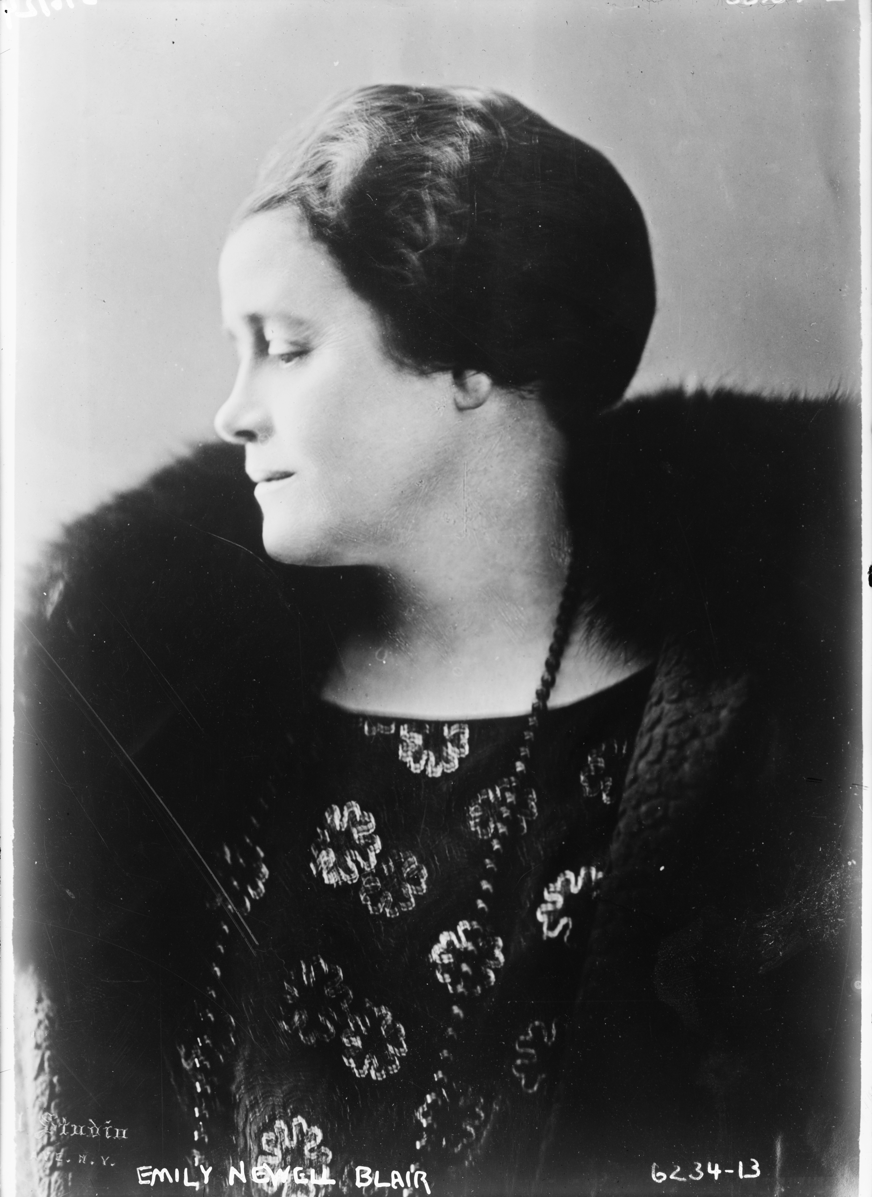 Undated photograph of suffragist, feminist, and national Democratic Party political leader Emily Newell Blair